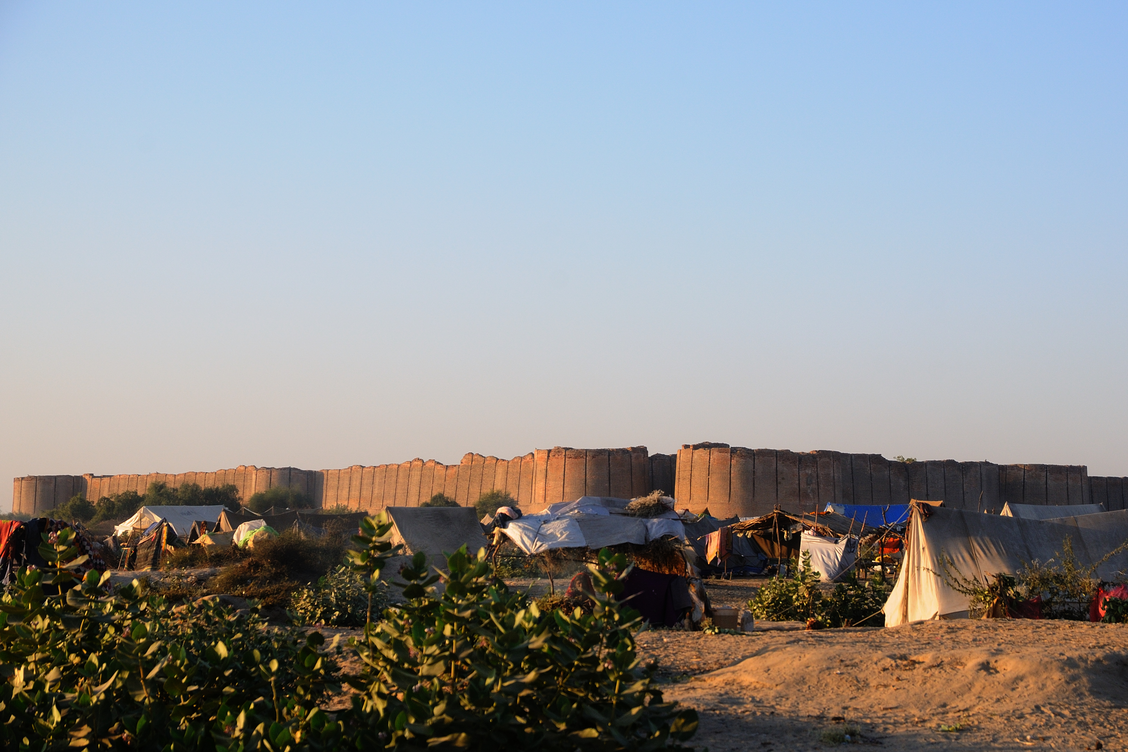 Naukot Fort This is a photo of a monument in Pakistan identified as the SD-88